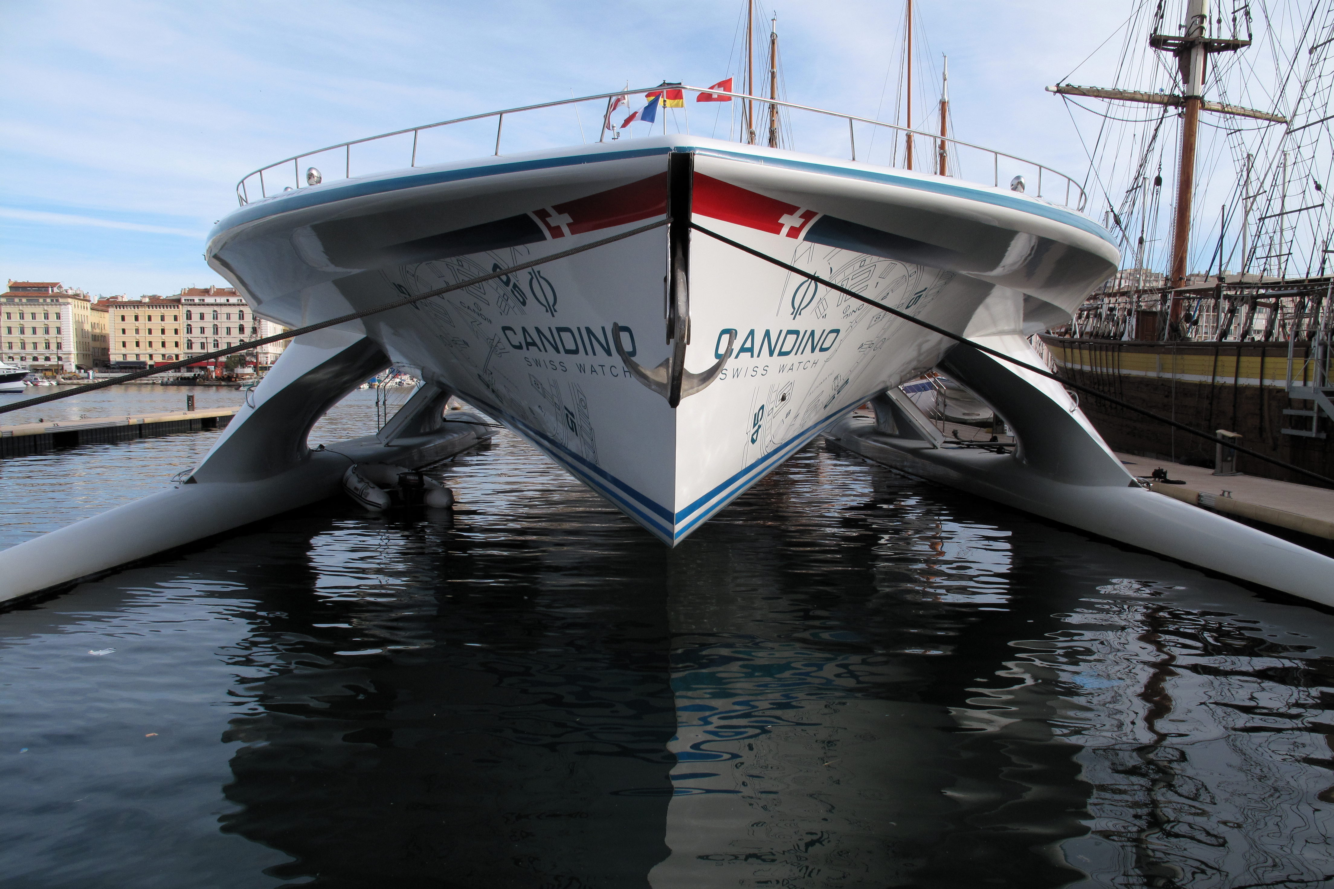 The PlanetSolar moored in the Old Port of Marseille, May 2012.